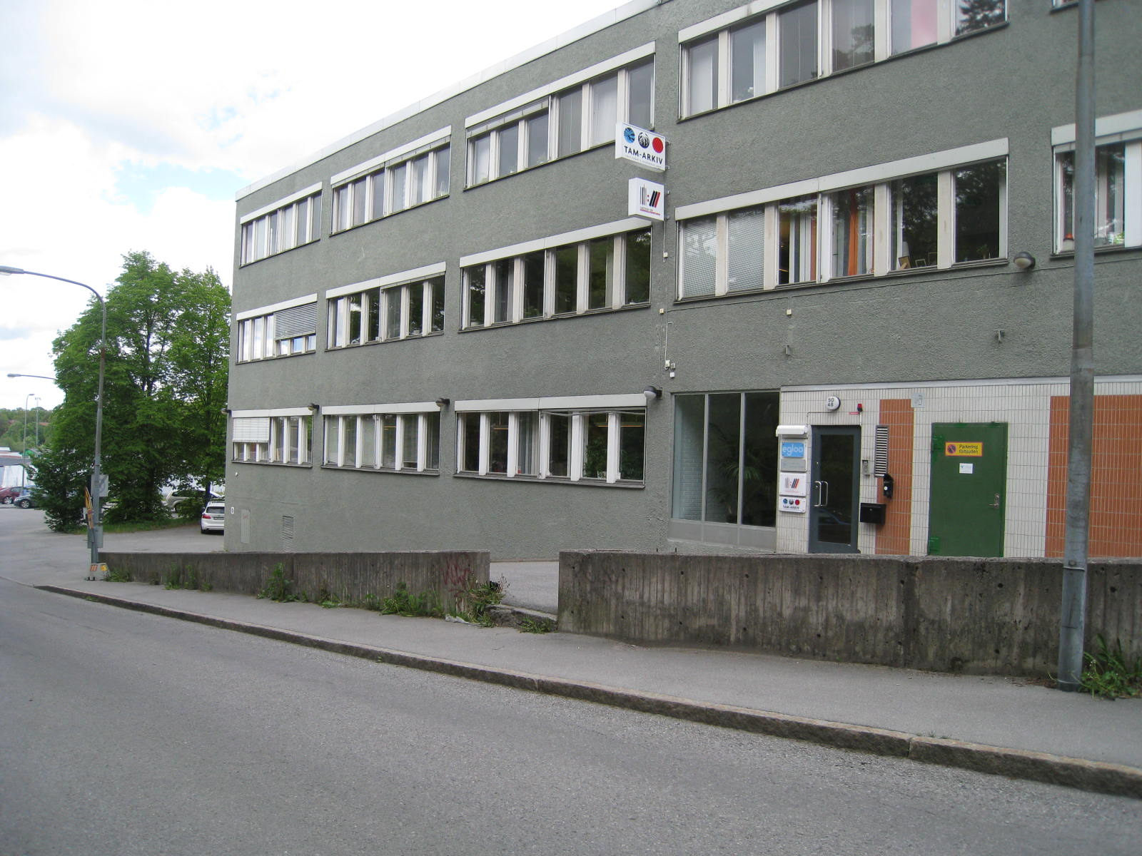 Centre for Business History, Centrum för Näringslivshistoria (CfN), Grindstuvägen 48-50, Ulvsunda, in Bromma, Stockholm County.